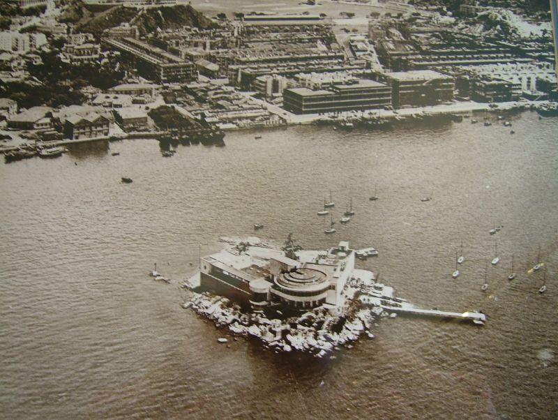 A shot of a photo of Kellett Island, Hong Kong, taken in 1948.